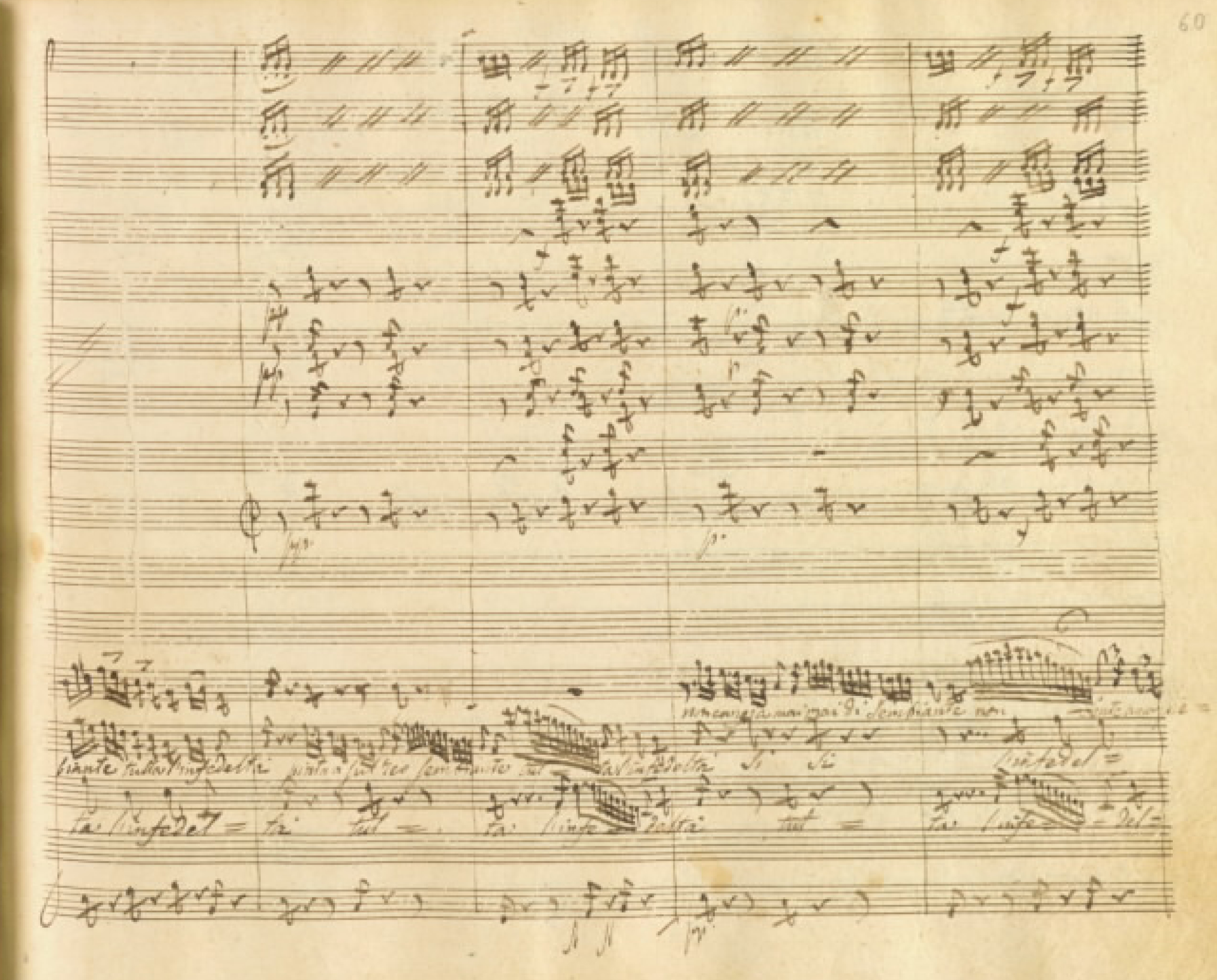 Rossini: Otello, Act II, terzetto Desdemona - Otello - Iago, detail : "...non cangia di sembiante..." (from: fs ms ca 1850, Biblioteca del Conservatorio "S. Pietro a Majella" di Napoli) ) - p. 124